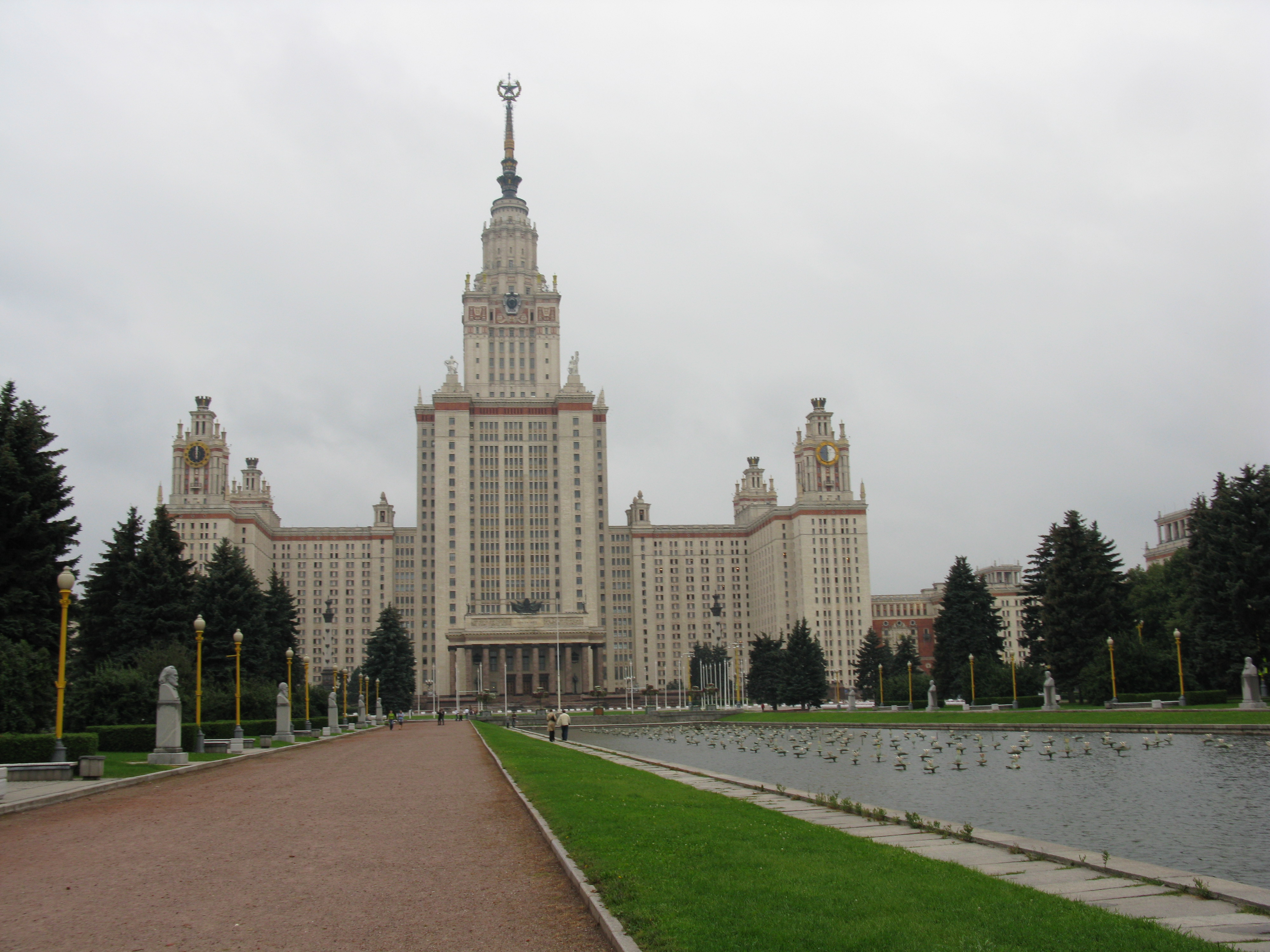 Moscow State University, Moscow, Russia